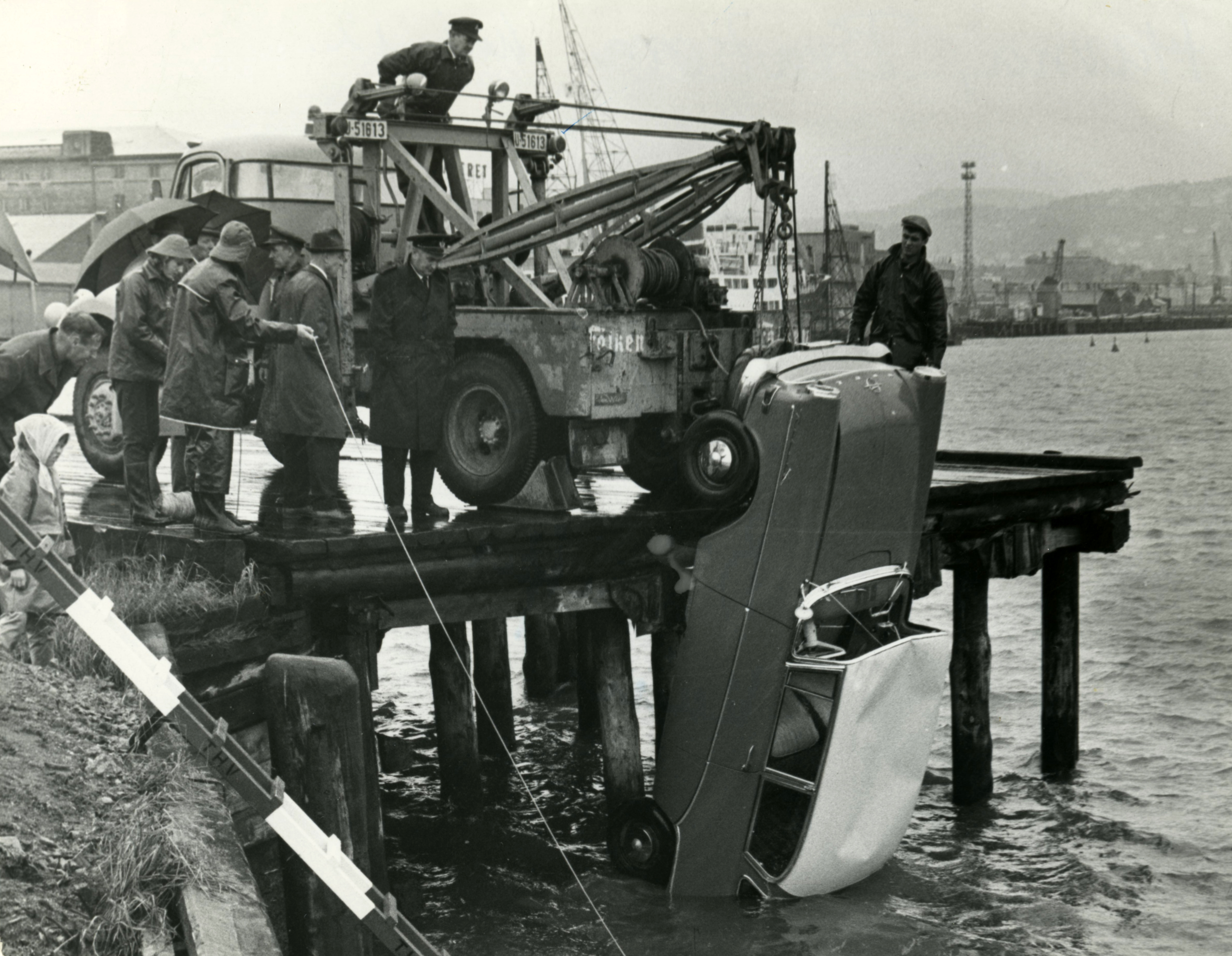 Format: Fotopositiv Dato / Date: Ukjent Fotograf / Photographer: Ukjent Sted / Place: Trondheim Facebook: Bilberging Eier / Owner Institution: Trondheim byarkiv, The Municipal Archives of Trondheim Arkivreferanse / Archive reference: Tor.H42.B48.F3450